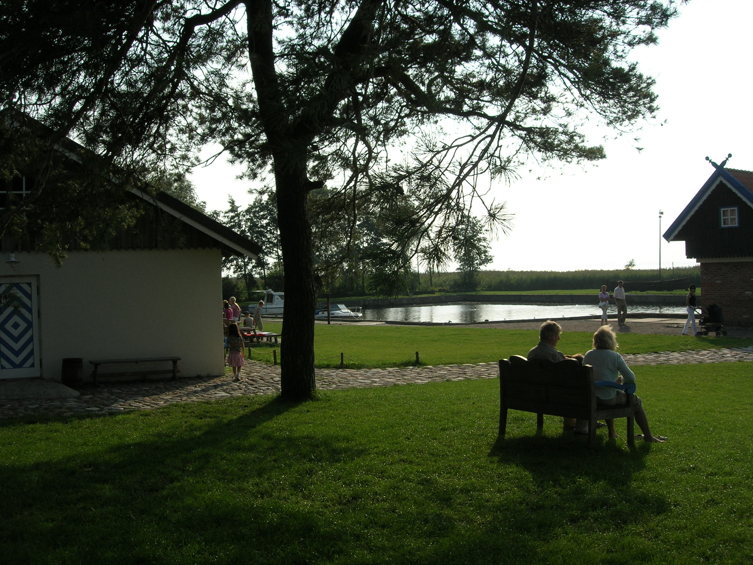 Šturmai village